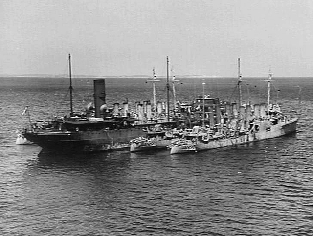 Starboard quarter view of the U.S. Navy tanker USS Victoria (AO-46) (ex George G. Henry) with four of the old four stack destroyers alongside. This photo could have been taken at Fremantle, Australia, when the tanker - still George G. Henry - fueled the four surviving American ships that took part in the Battle of the Java Sea, the destroyers USS Alden (DD-211), USS John D. Edwards (DD-216), USS John D. Ford (DD-228), and USS Paul Jones (DD-230), soon after they arrived in Australian waters. On 15 April 1942, while at Yarraville, a suburb of Melbourne, George G. Henry was taken over by the U.S. Navy under a bareboat charter and commissioned as USS Victoria (AO-46) on 20 April. Survivors from the sunken USS Langley (AV-3), USS Peary (DD-226), and USS Pecos (AO-6) made up the ship's new crew.